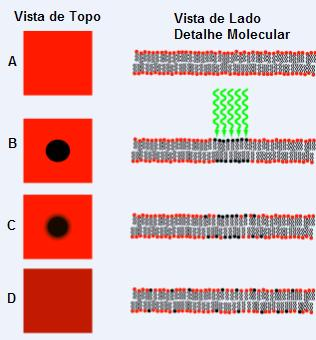 Simulation and schematic diagram of the FRAP (fluorescence recovery after photobleaching) experimental process